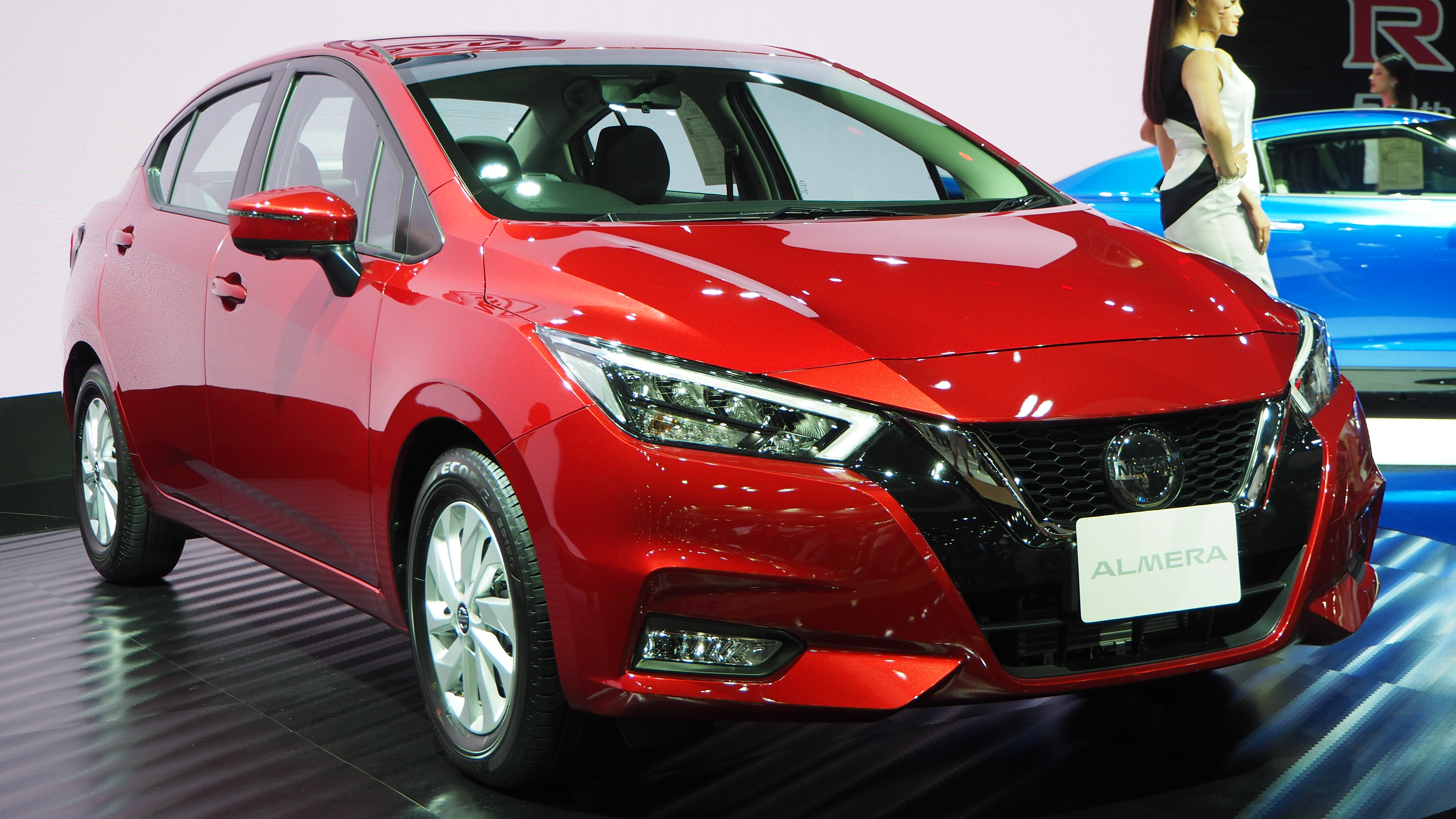 2019 Nissan Almera 1.0L Turbo VL in Impact Challenger Hall, Muang Thong Thani, Nonthaburi, Thailand.